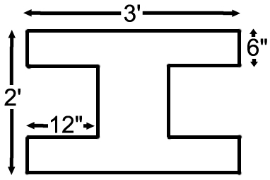 J.W. Sexton High School, "H"-column construction